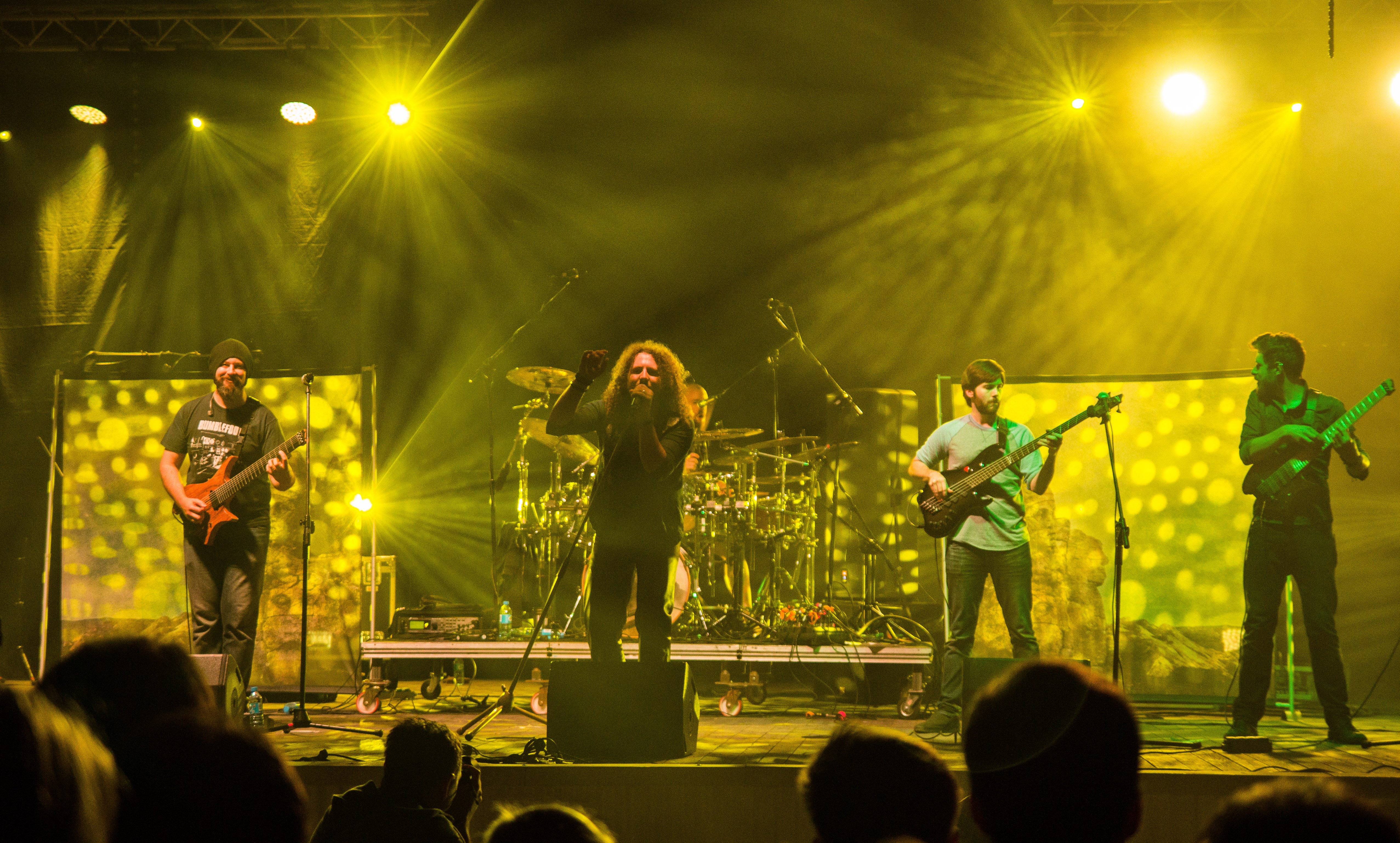 Koncert podczas Ino-Rock Festival 2014.